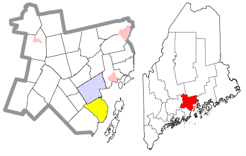 Map of the divisions of Waldo County, Maine, United States, with the town of Northport highlighted in yellow. The city of Belfast is light blue; other towns are white; and pink areas are census-designated places within towns.